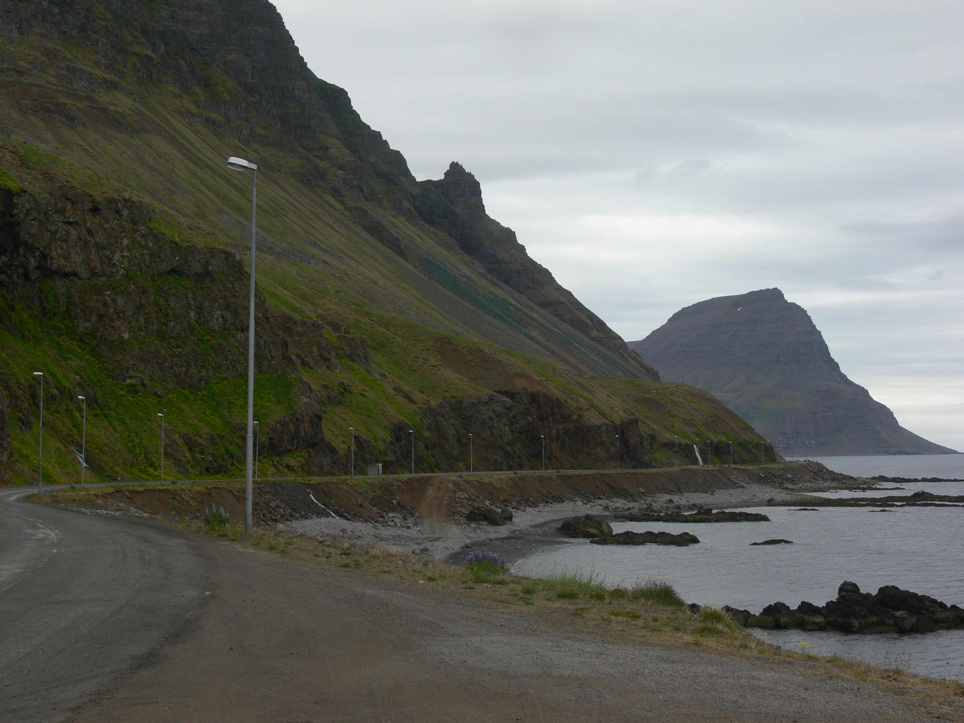 the old road around the mountain of Arafjall.